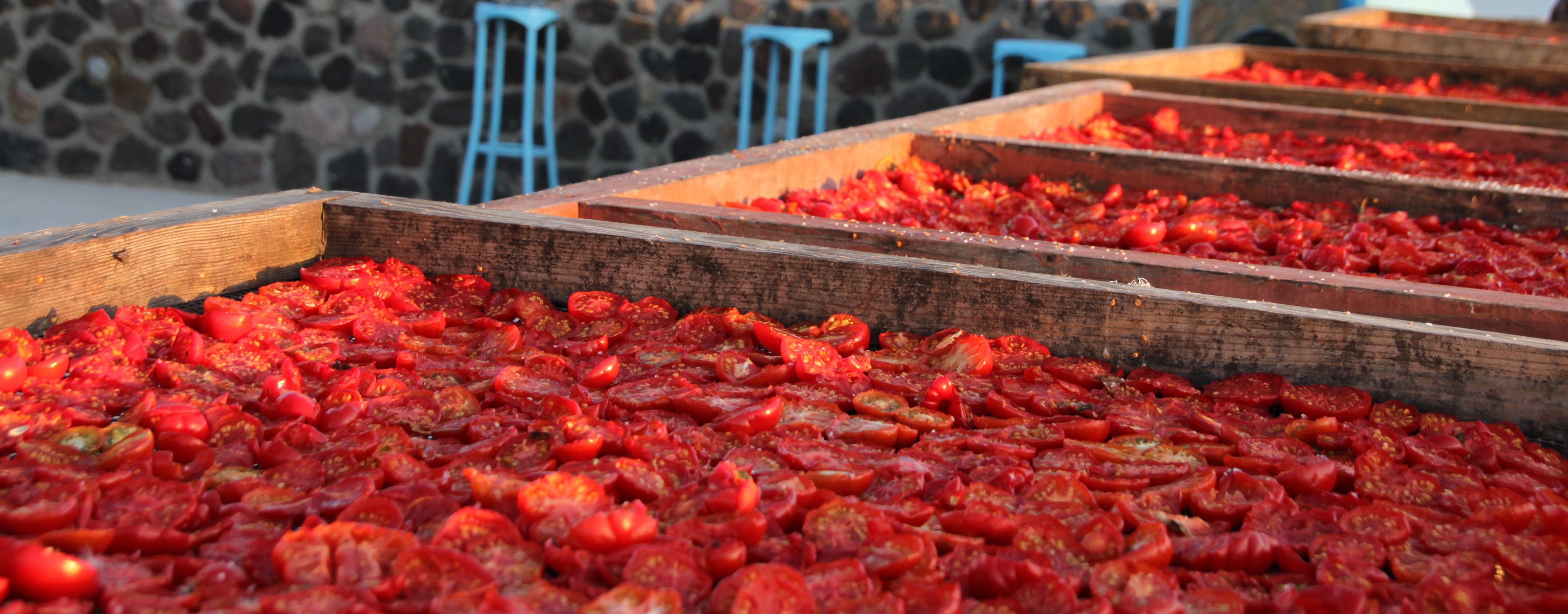 Sun-dried tomatoes at Akrotiri of Santorini...